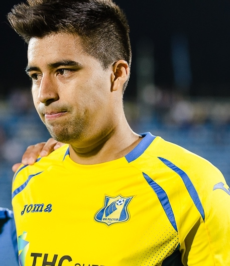 Christian Noboa